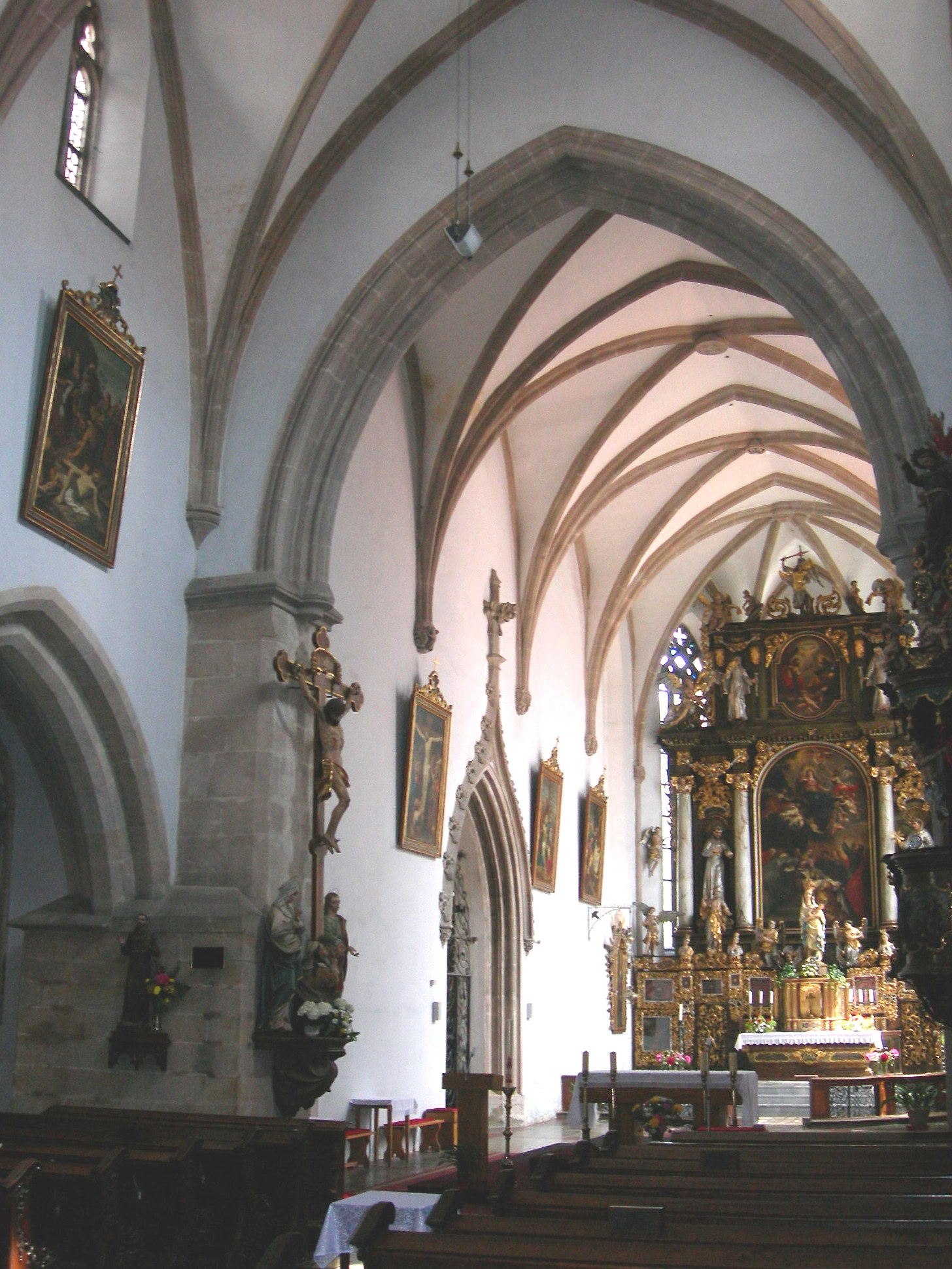 Plzeň, former Franciscan monastery, St. Mary church (early 14th Century)